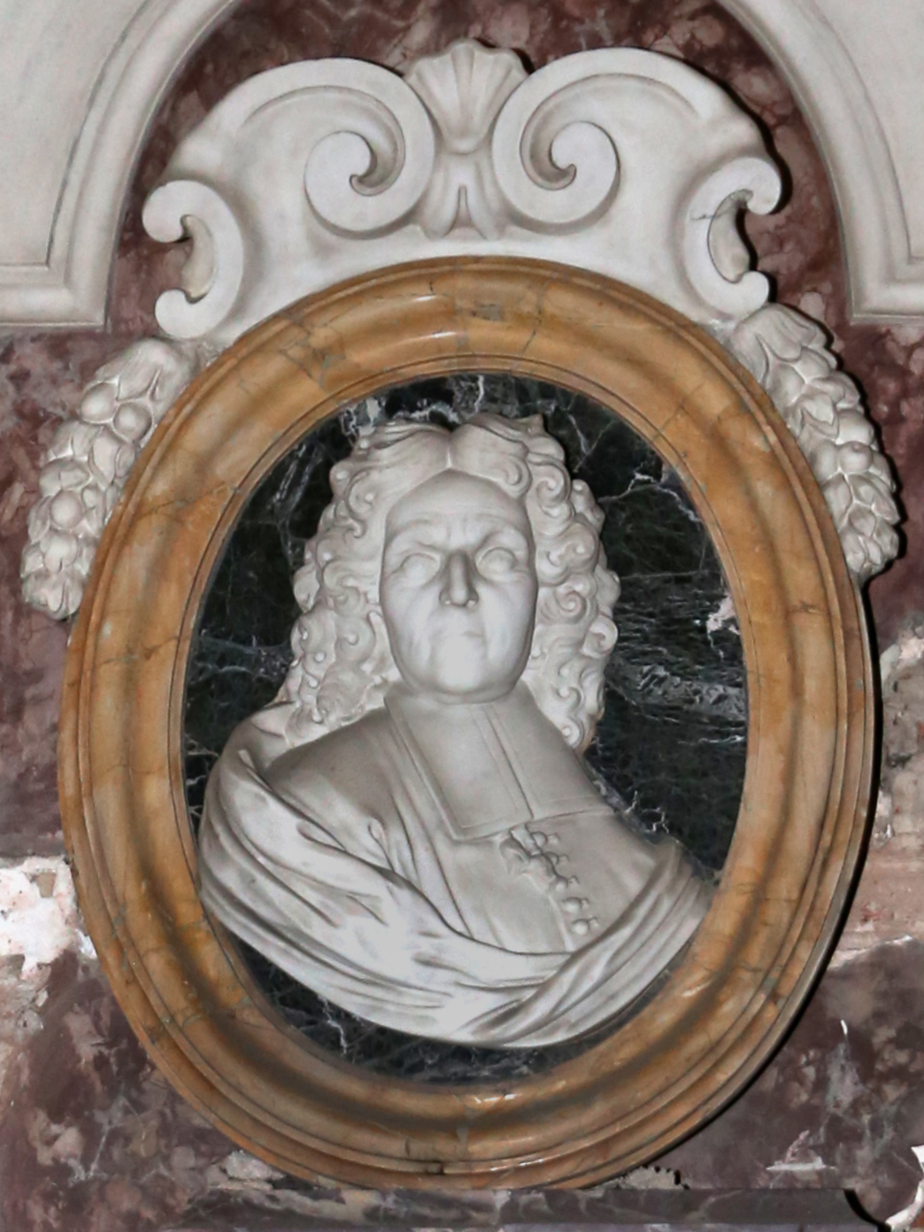 San Domenico (Pistoia) - Melani chapel